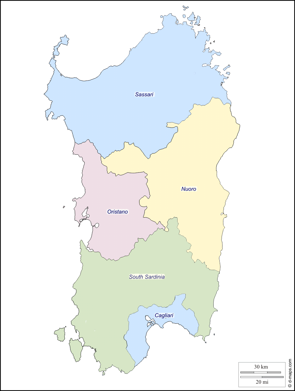 Map showing the provinces of the region of Sardinia, Italy, after the 2016 administrative reorganization